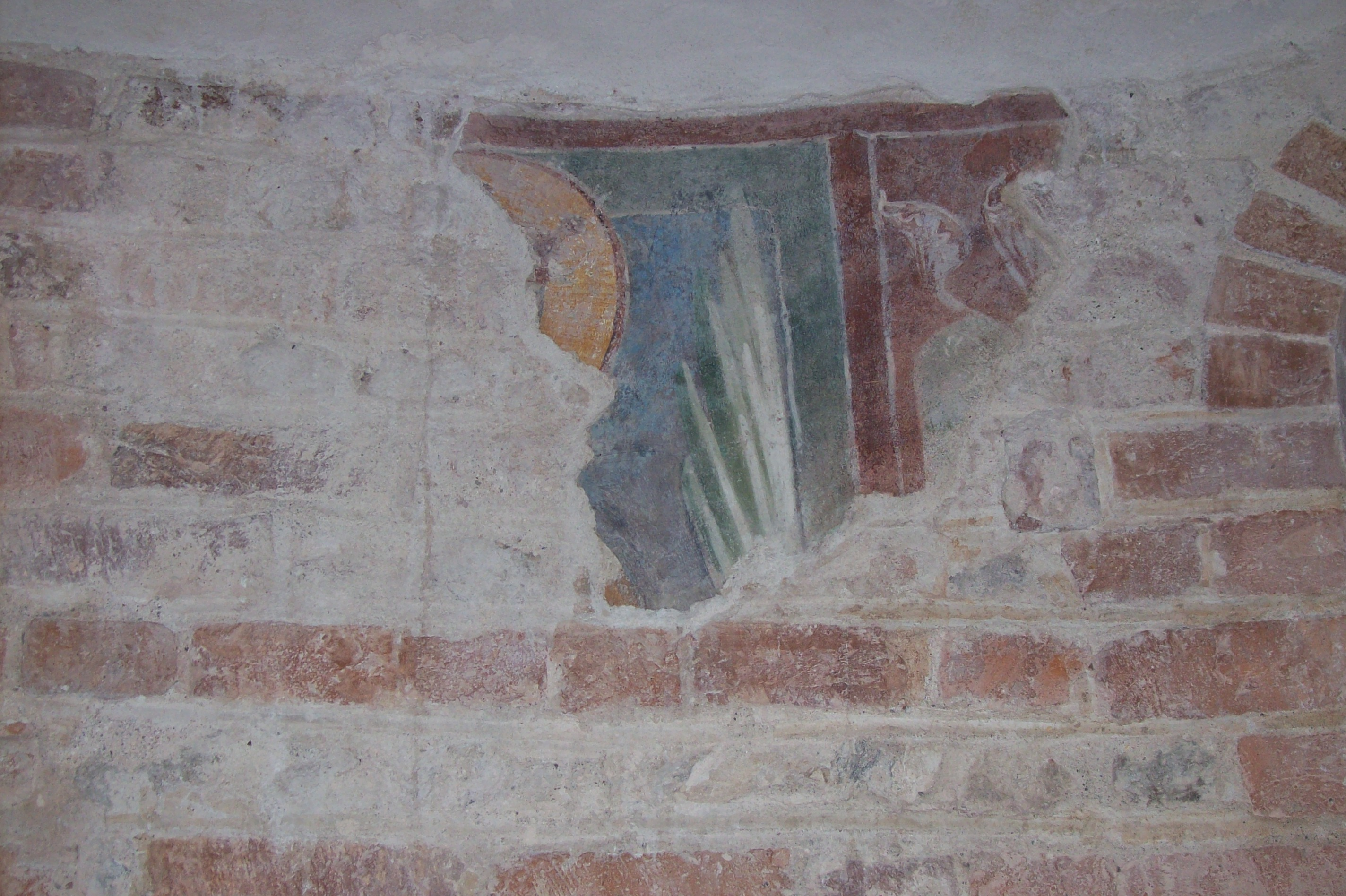 Church of Santa Maria di Torba, Gornate olona (Va) (Italy)